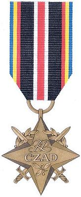 Polish Chad Star obverse